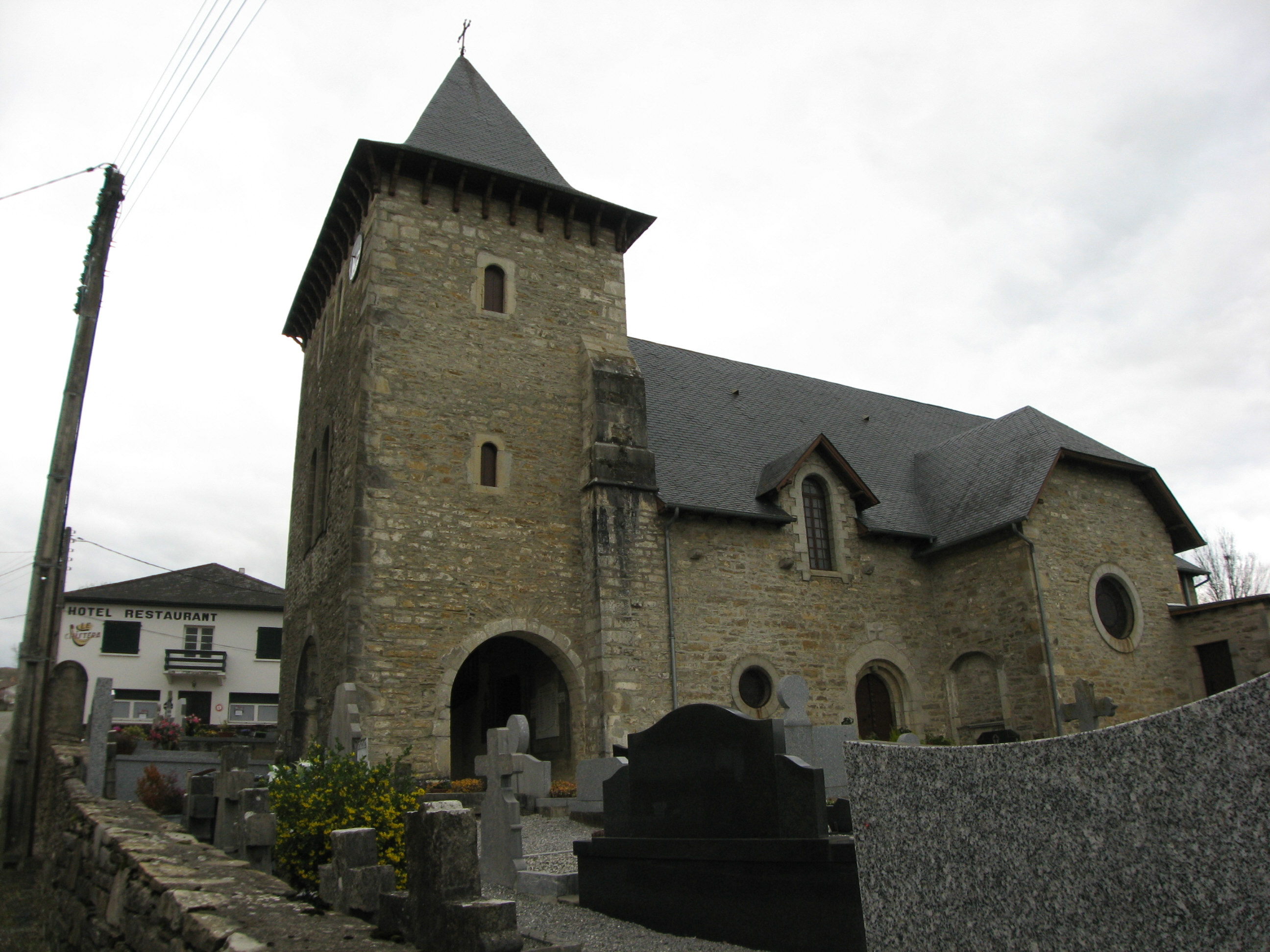 Church of Muskildi (eu) Musculdy (fr), Soule, Basque Country. Pyrénées-Atlantiques